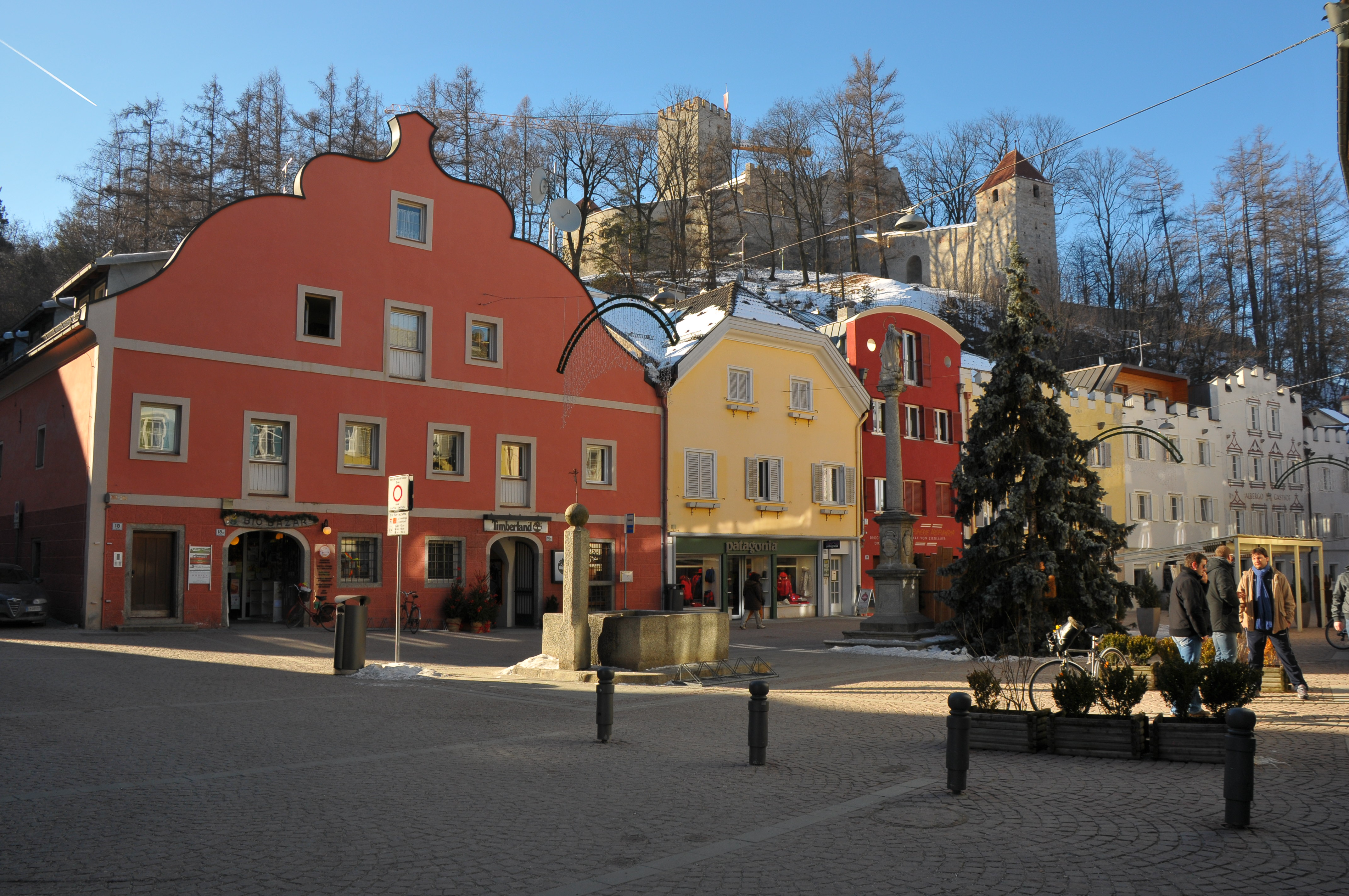 Brunico city centre with the castle on the background